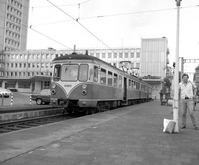 The Koln-Bonn Eisenbahn at Barbarossaplatz